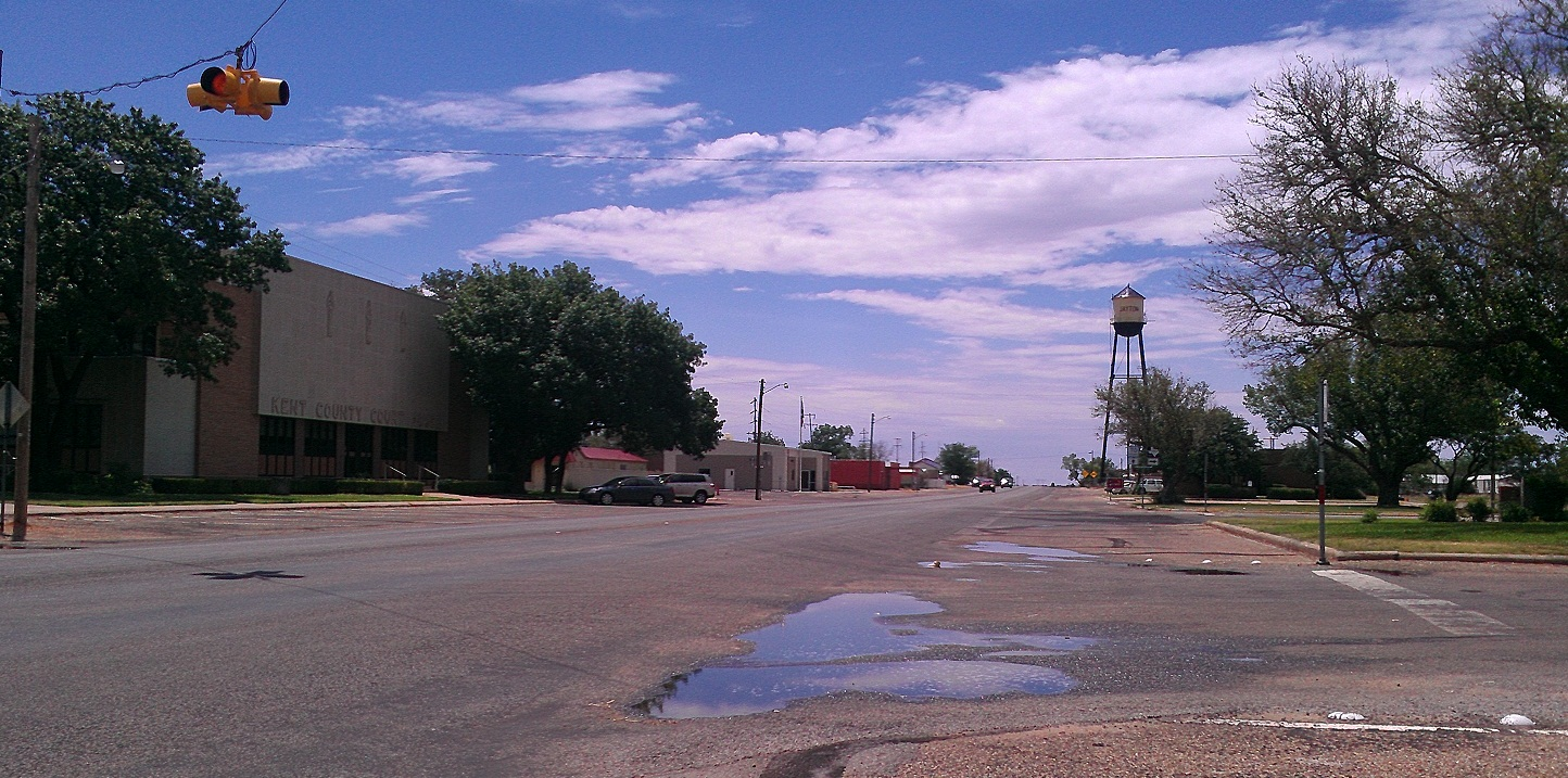 Jayton, Texas as seen facing south outside the Kent County Library.